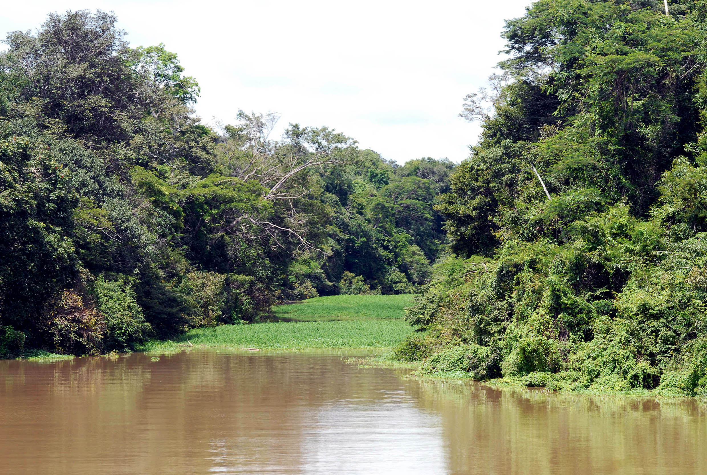 Tefé (AM) - View from the Reserve